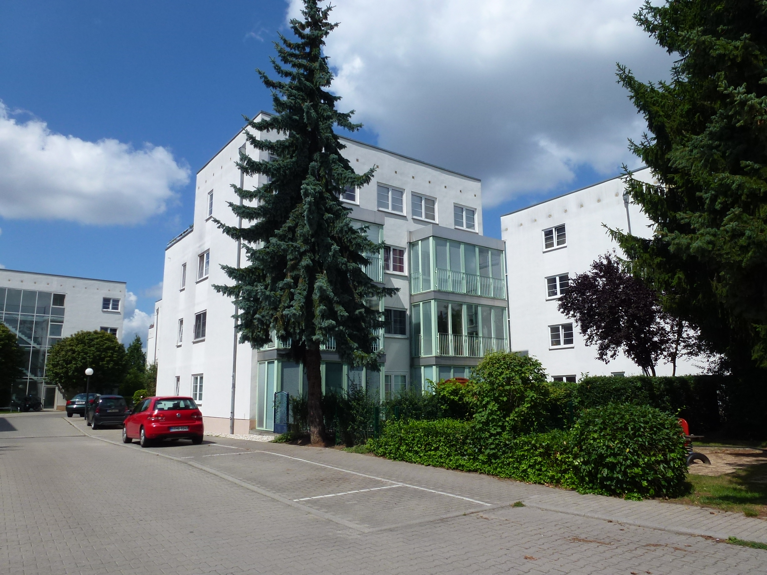 Berlin-Buckow Parksiedlung Spruch